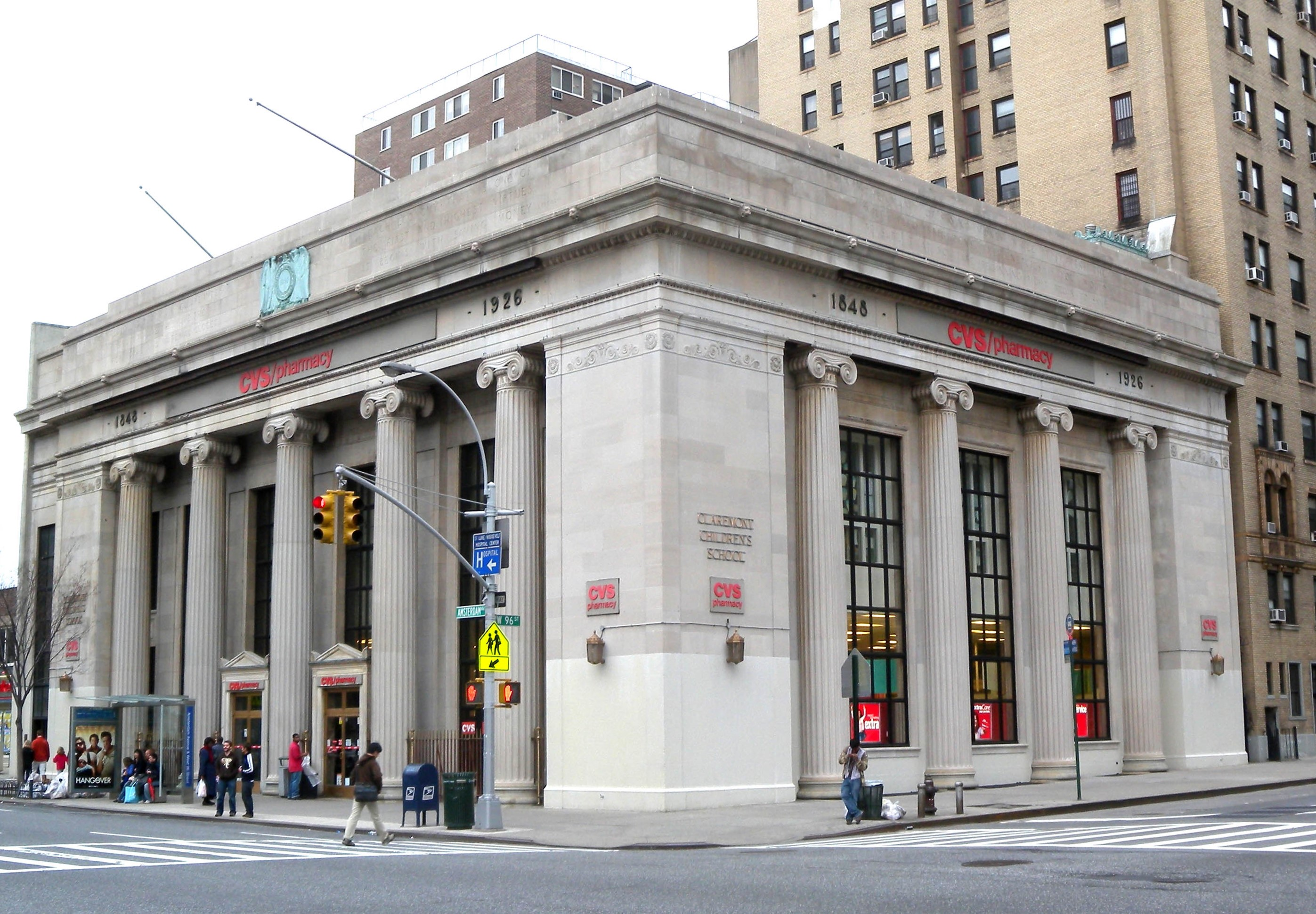 Looking northeast across 96th Street and Amsterdam Avenue at former East River Savings Bank of Walker & Gillette, now a drugstore, on a cloudy late afternoon. NYCLPC designation 1998; Guidebook map 14.